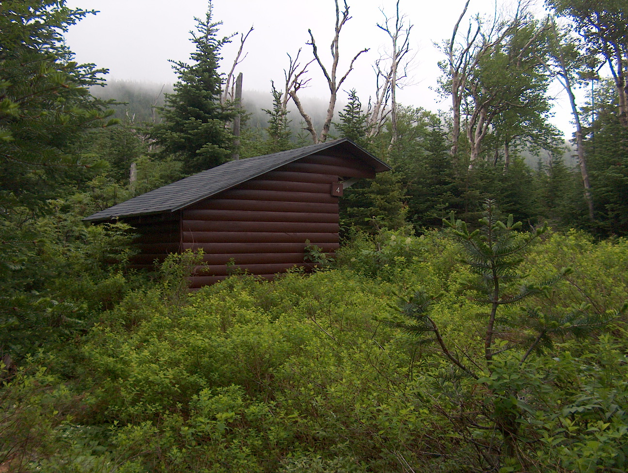 Lean-to shelter at Chimney Pond Campground in Baxter State Park, Maine. Photo by Ken Gallager.